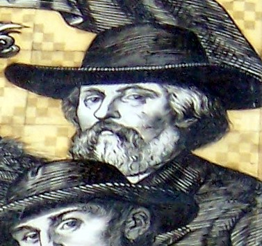 Der Schaffer des Fürstenzugs Wilhelm Walther auf dem Fürstenzug in Dresden.